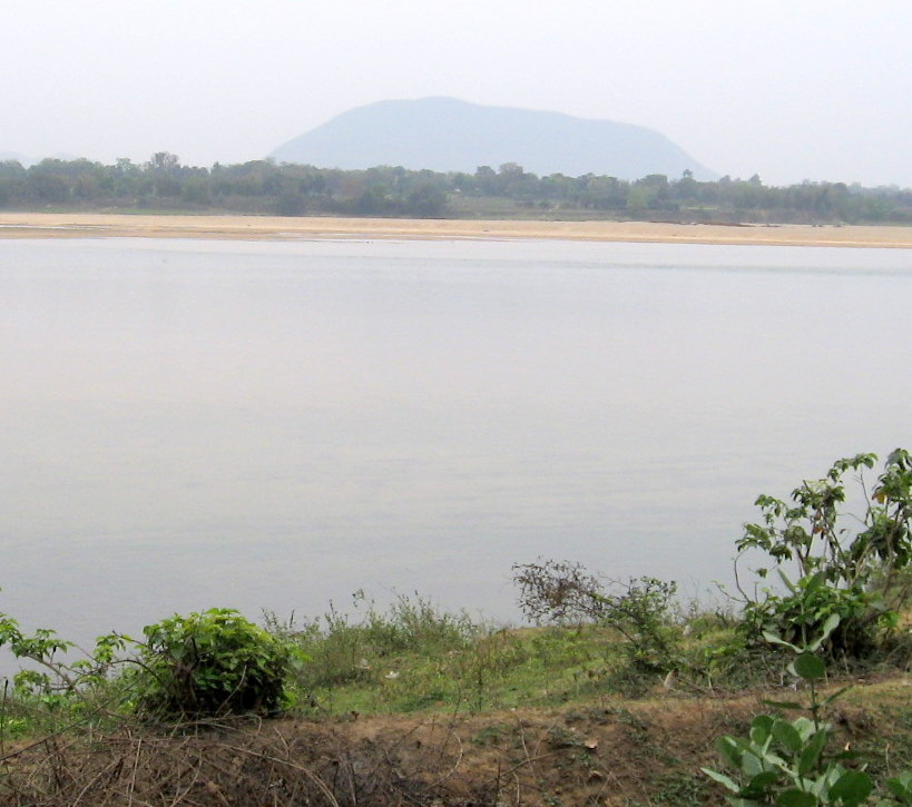 Biharinath Pahar from across the Damodar River